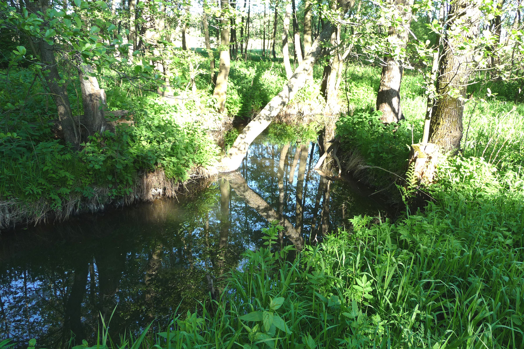 Desna River (Guslitsa basin) about the viilage of Chichevo. Orekhovo-Zuyevsky District of Moscow Oblast, Russia